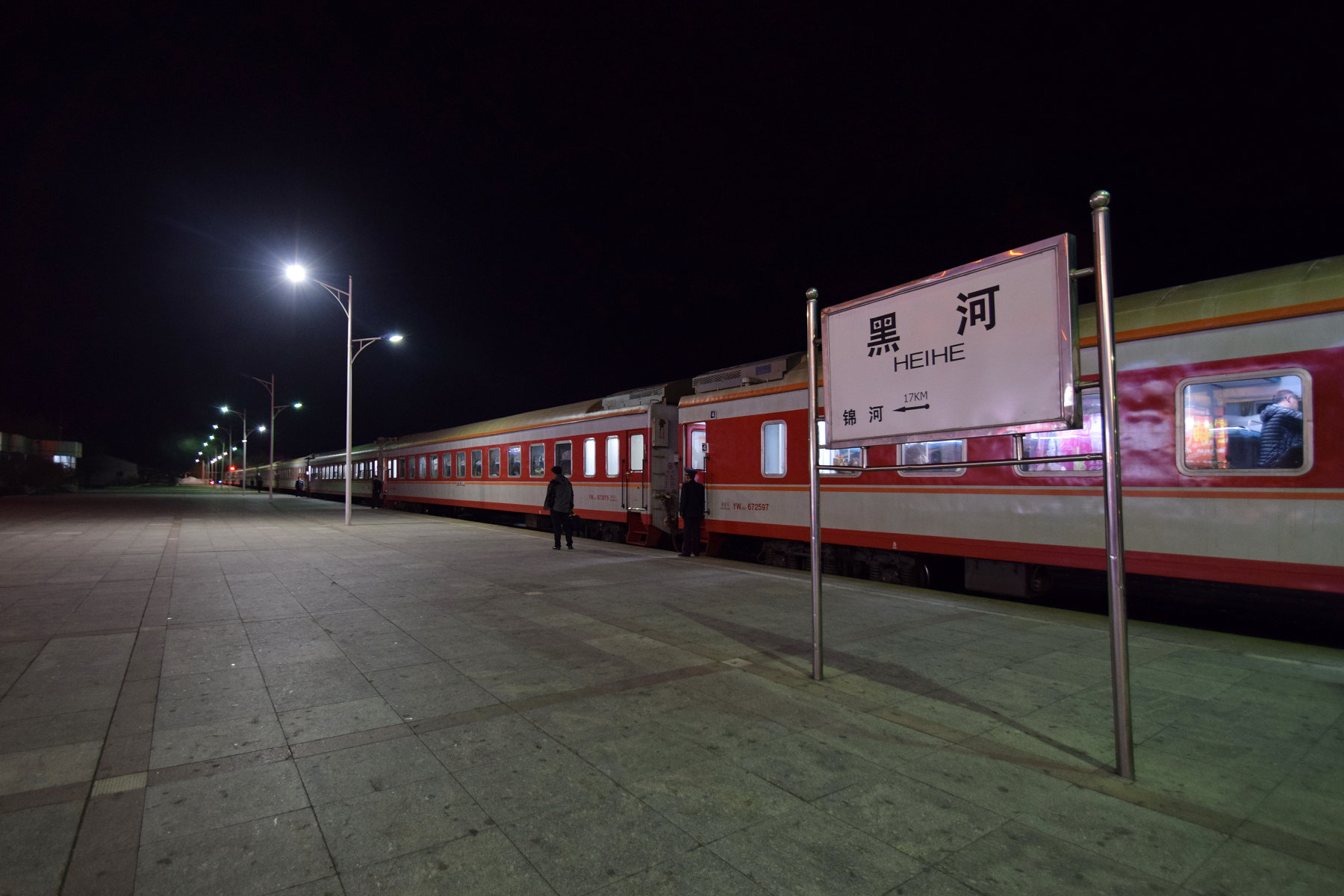 Platform of Heihe Railway Station